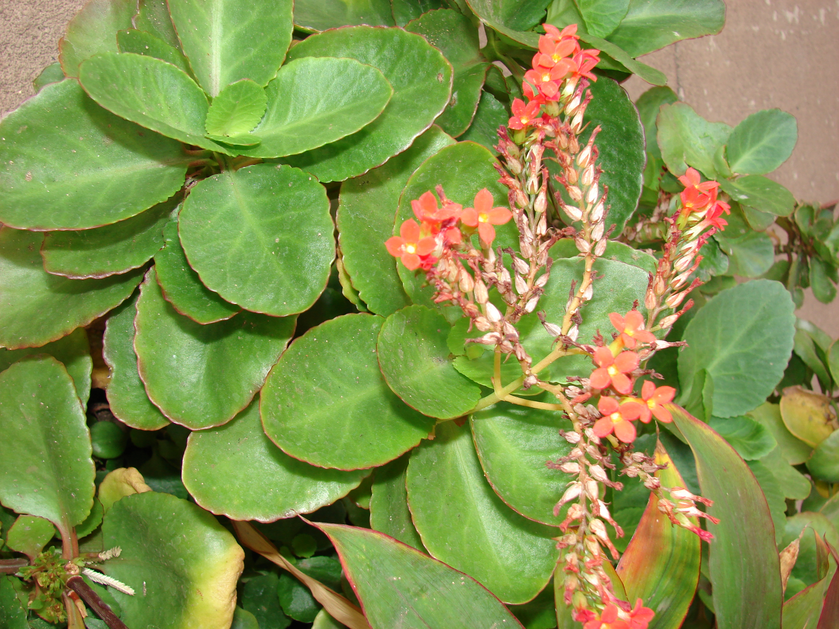 Kalanchoe blossfeldiana (flowering habit). Location: Maui, Wailuku